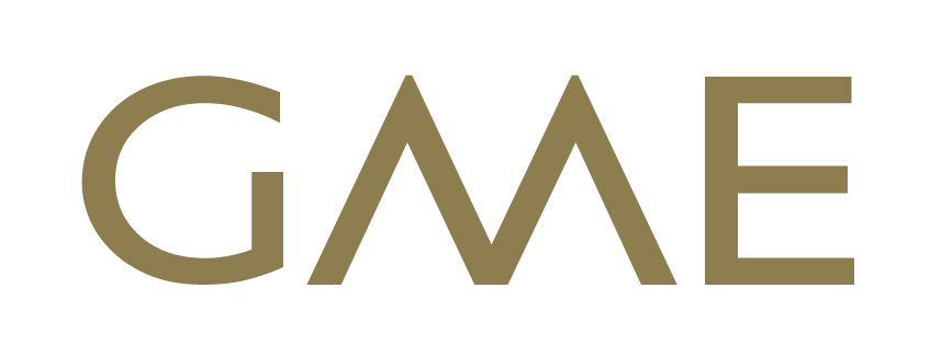 中文（香港）: GME Holdings Company Logo